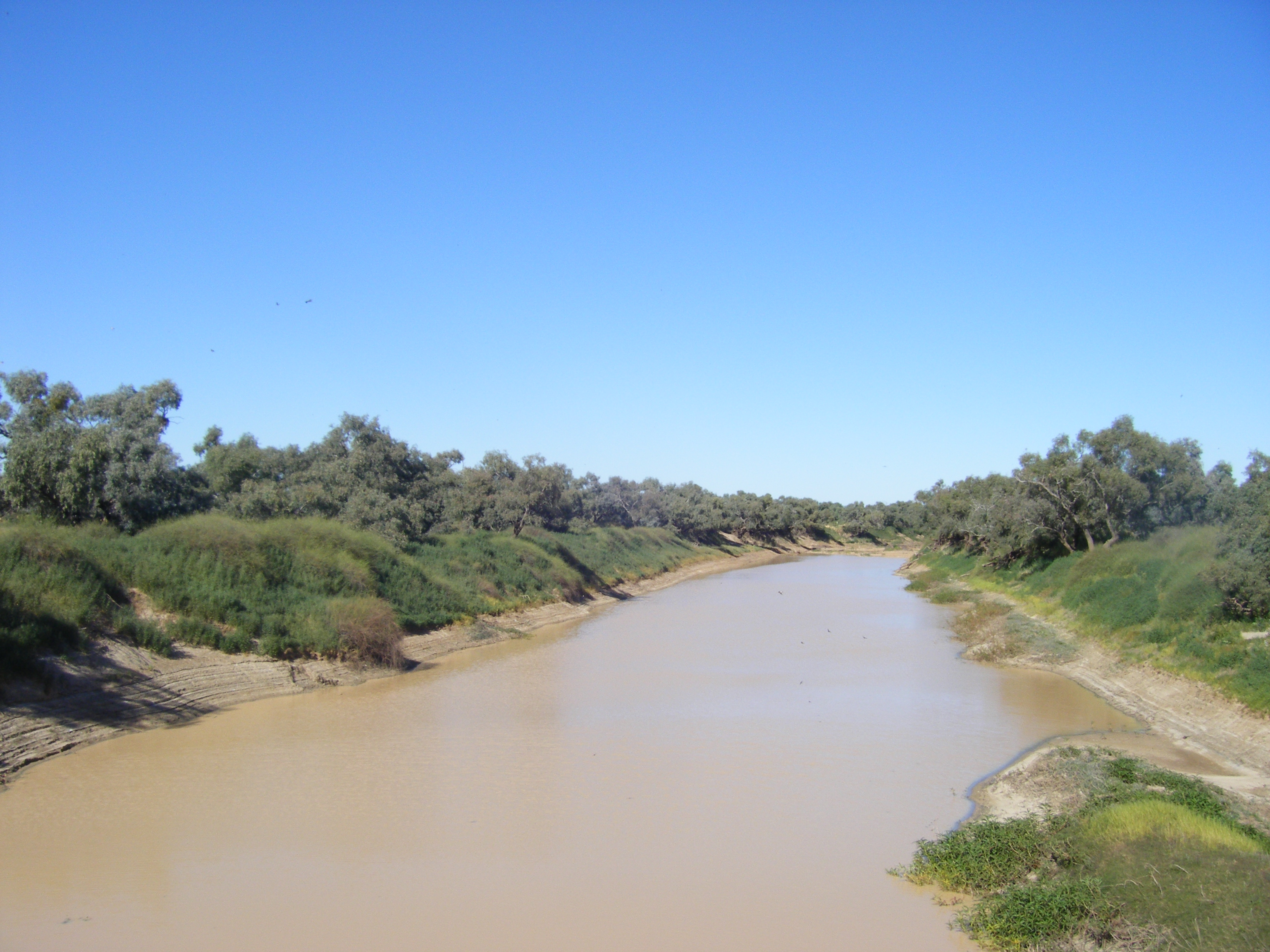 Diamantina River crossing outside Birdsville, Queensland